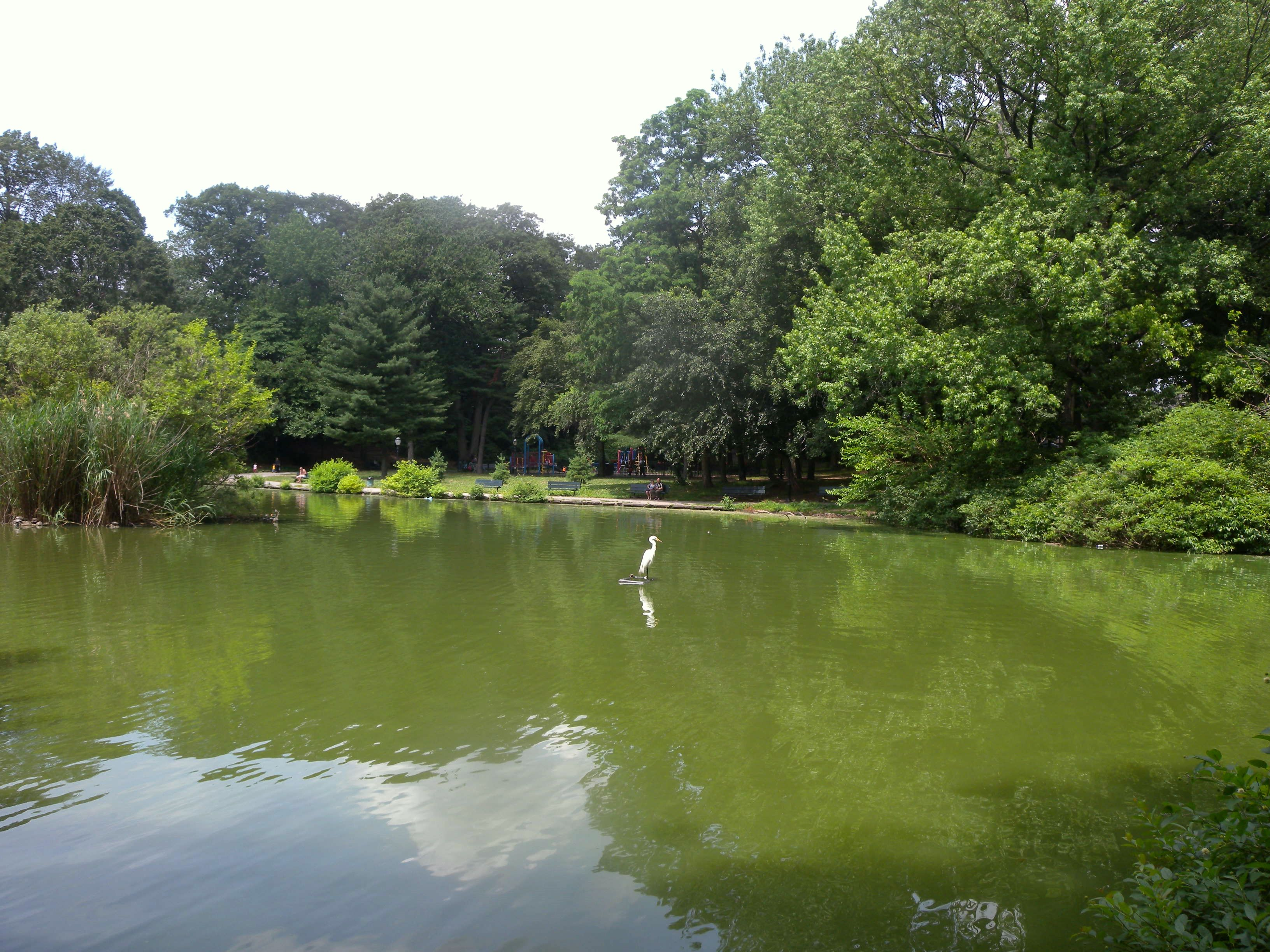 Looking north at Goose Pond on a sunny midday.